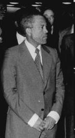 Luis Cabral Title: Berlin, Palast der Republik, Besuch Cabral People in the image: Cabral, Luiz: Staatsratsvorsitzender, Generalsekretär Unabhängigkeitspartei, Guinea-Bissau Factual corrections and alternative descriptions are encouraged separately from the original description. Additionally errors can be reported at this page to inform the Bundesarchiv. Original historic description: ADN-ZB Spremberg 16.11.76 Berlin: Besuch Luiz Cabrals Die Mitglieder der Partei- und Staatsdelegation der Republik Guinea-Bissau unter Leitung von Luiz Cabral, stellvertretender Generalsekretär der Afrikanischen Unabhängigkeitspartei von Guinea und den Kapverden und Vorsitzender des Staatsrates der Republik Guinea-Bissau (3.v.l.vorn), besichtigten am 16.11. den Palast der Republik am Berliner Marx-Engels-Platz.